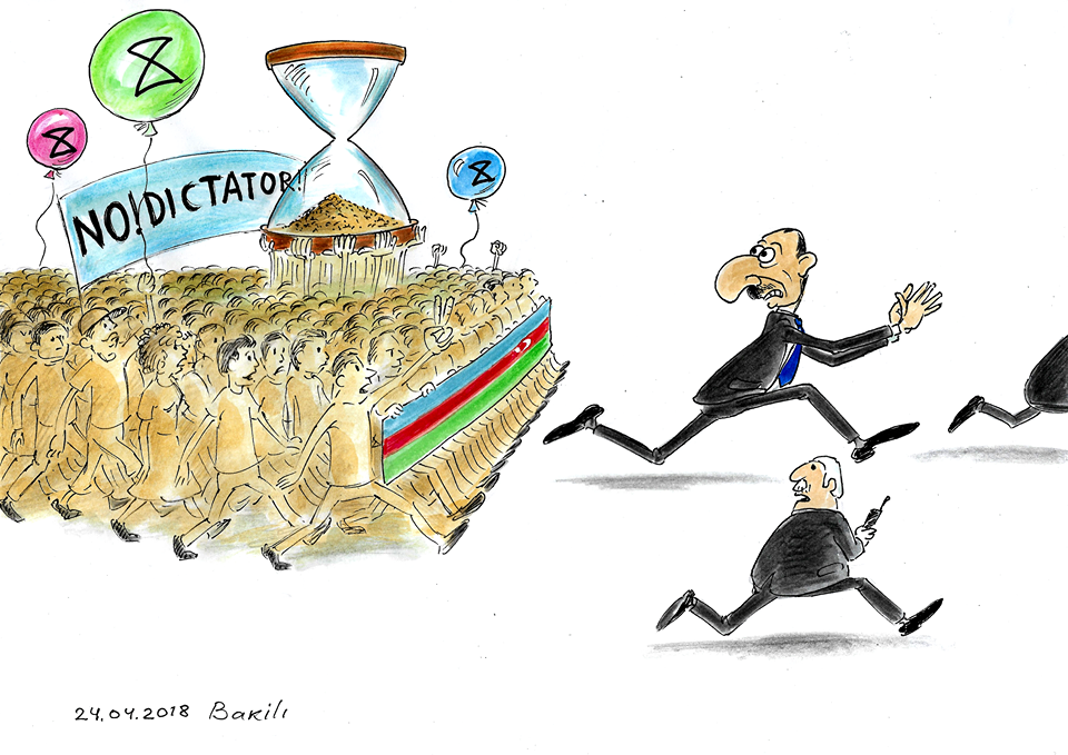 Ilham Aliyev runs from crowd